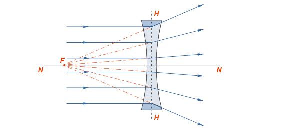 Desription Object